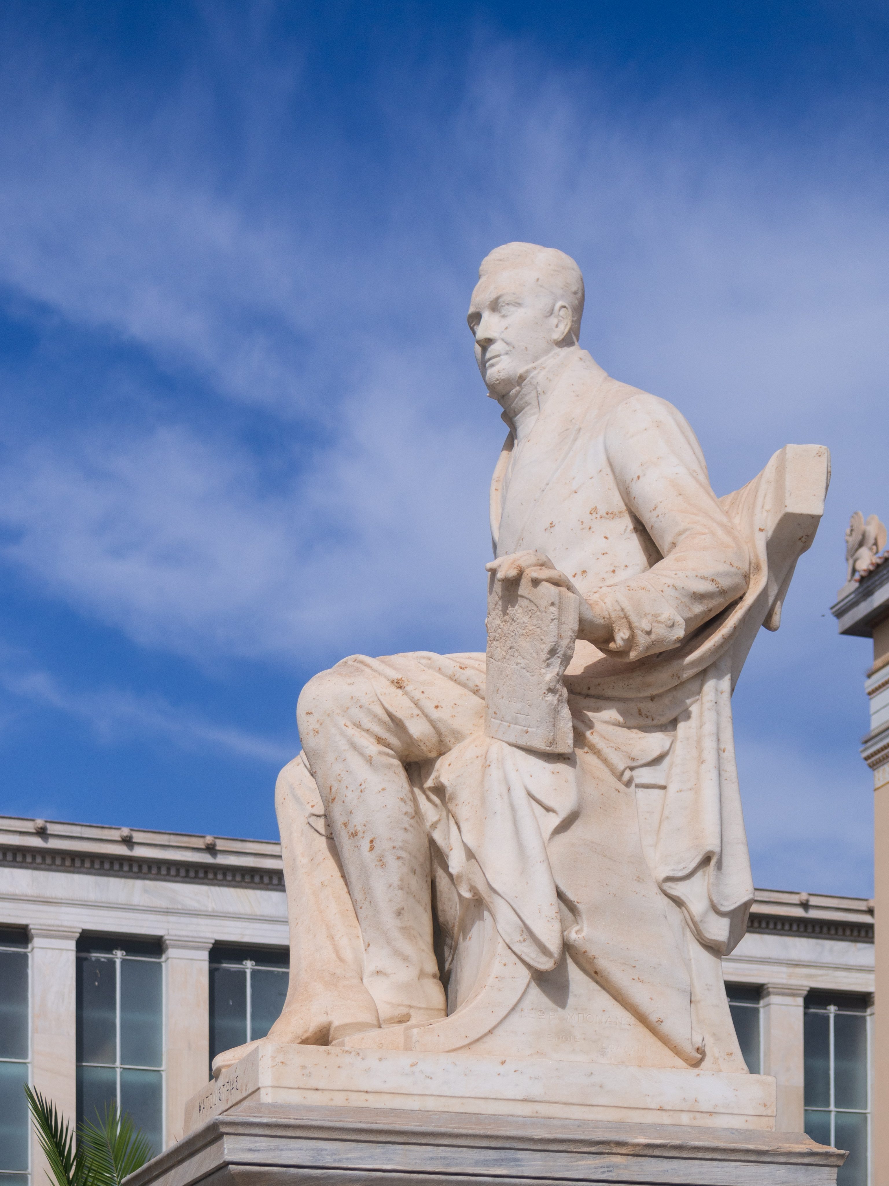 Statue of Ioannis Kapodistrias in front of the National and Kapodistrian University of Athens.«Κτίριο Εθνικού και Καποδιστριακού Πανεπιστημίου Αθηνών»